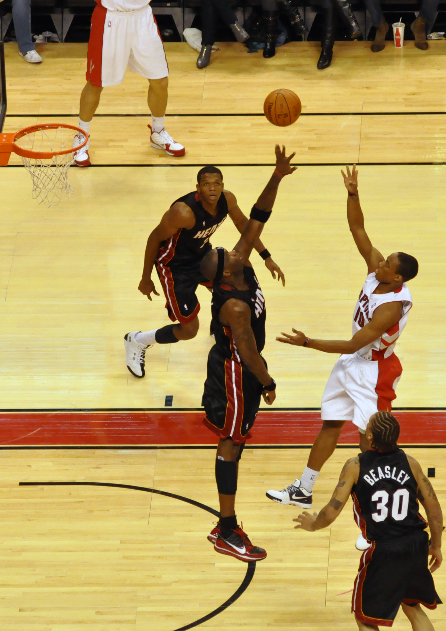 DeMar DeRozan Toronto Raptors Miami Heat 2009